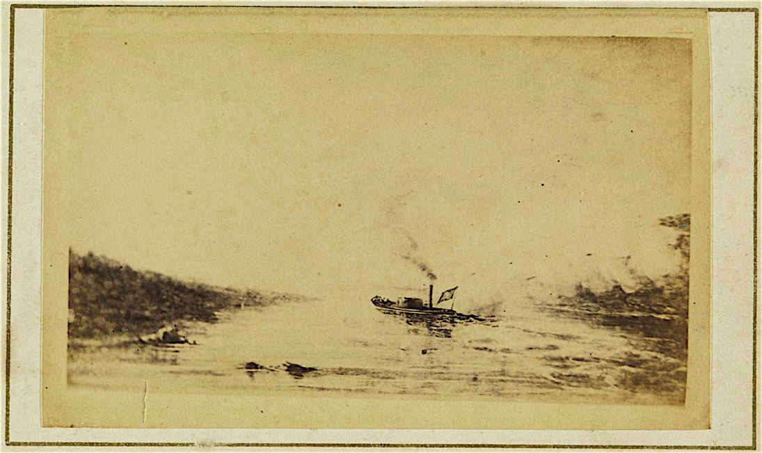 The Brazilian river monitor Alagoas passing Humaitá sometime in 1868.